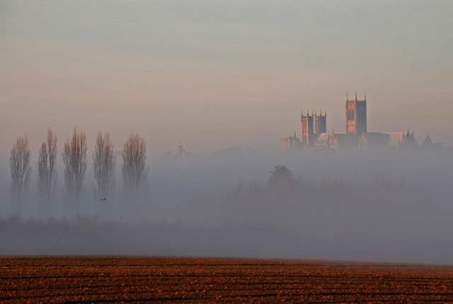 Lincoln Cathedral floating above the mist This was taken from the Canwick to Heighington road in mid afternoon, after a morning of thick fog.